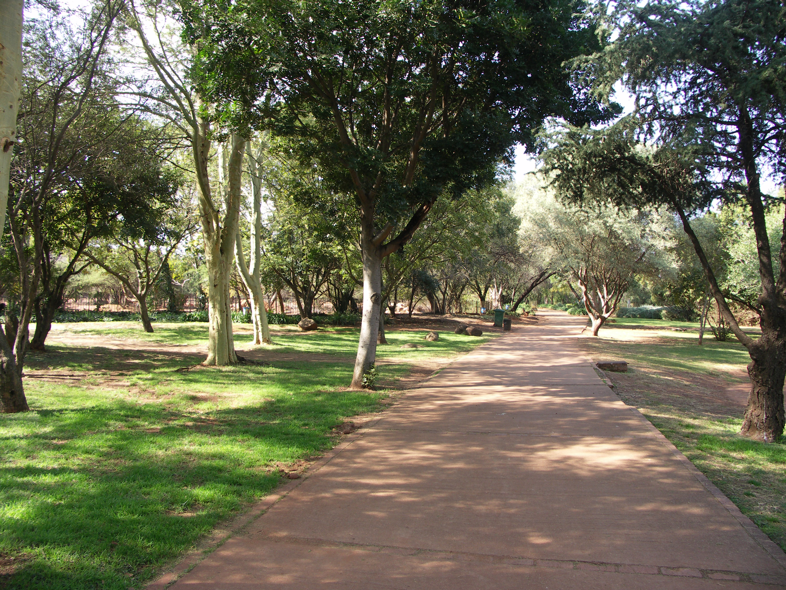 Pathway in the National Zoological Gardens of South Africa